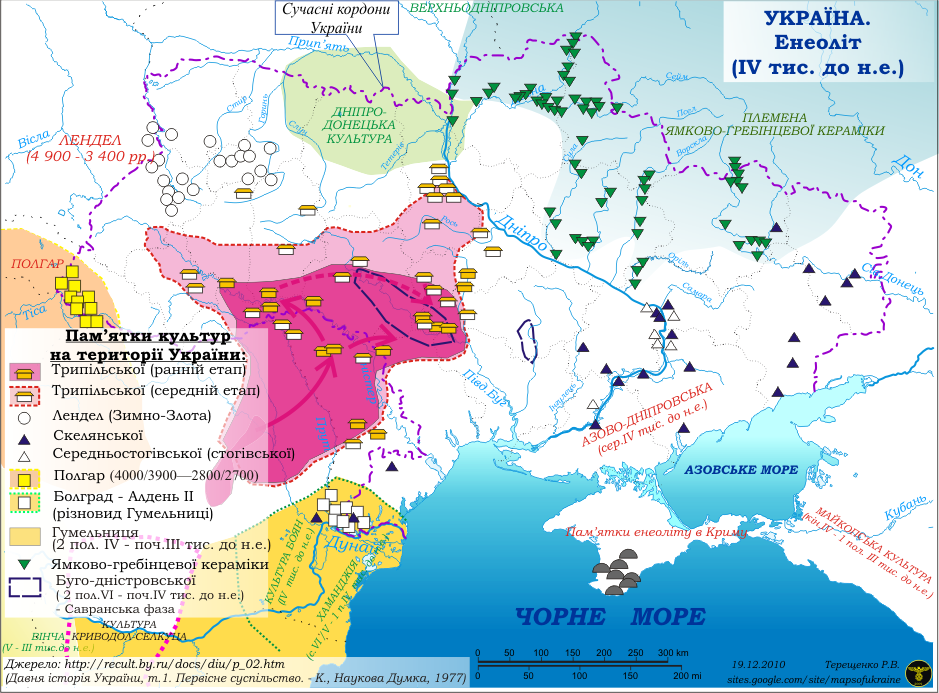 Chalcolithic in Ukraine (IV millennium BC.) Trypillian culture